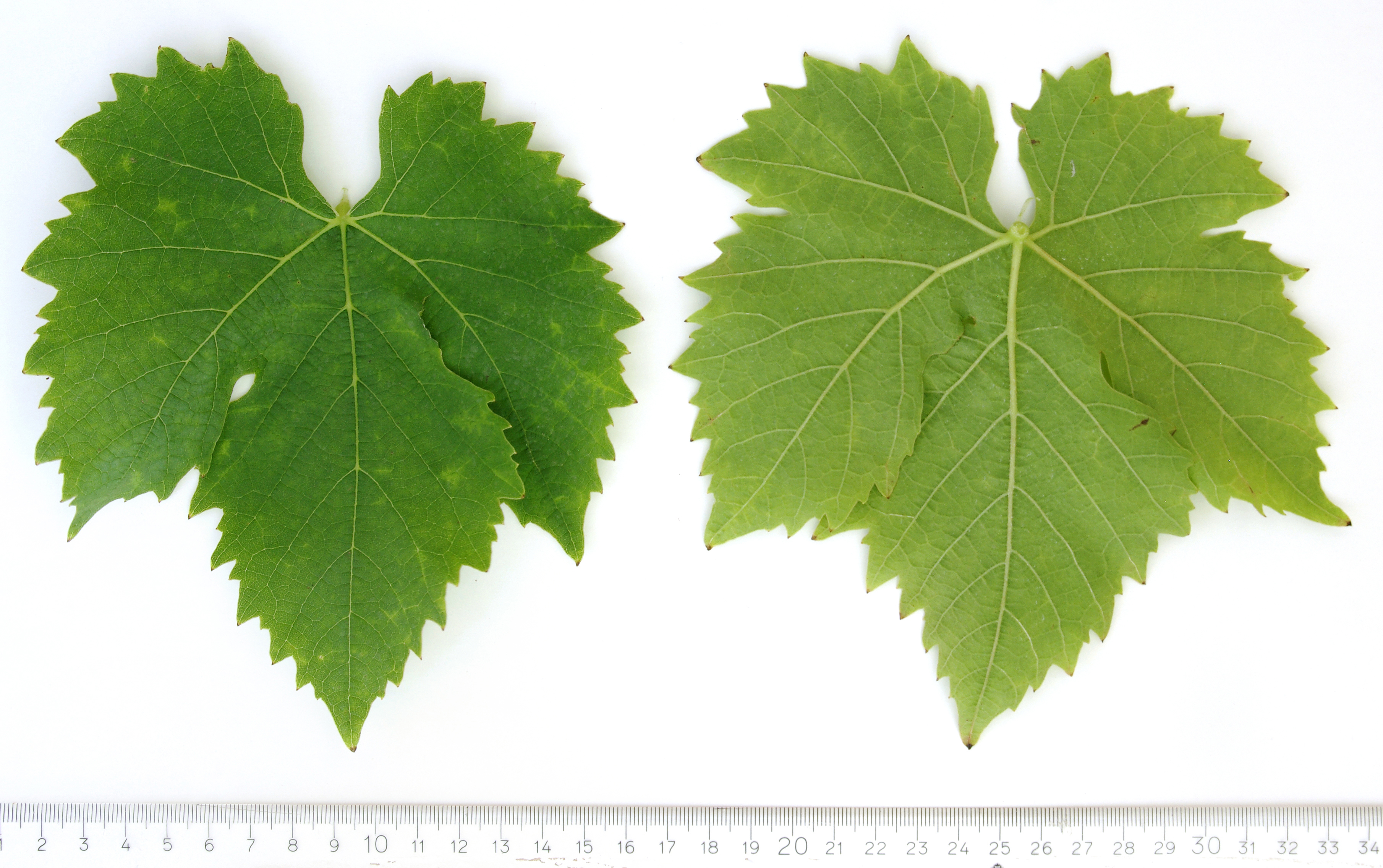 Leaf shape of the Aleatico grape variety (top and bottom)